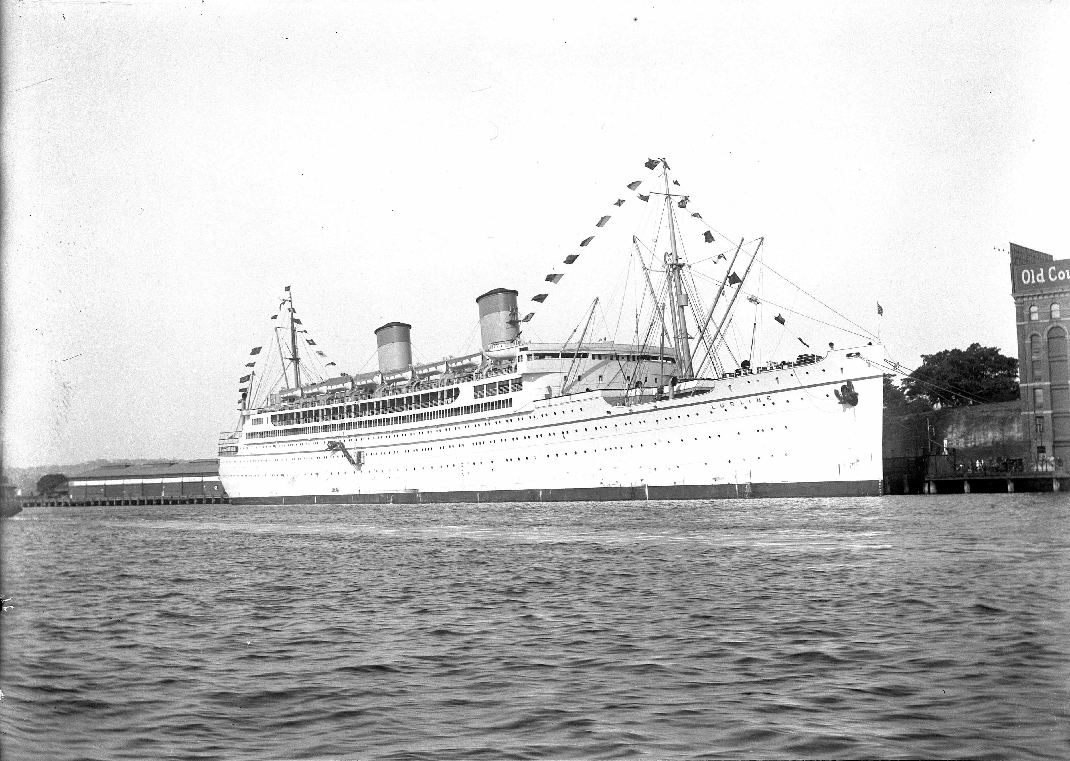 This photograph depicts the Matson liner LURLINE after her maiden voyage tourist trip where she berthed at No 2 Wharf East Circular Quay on Sunday 19 February 1933. Image captured from 3.25pm ferry Mosman to Quay. Frederick Wilkinson (1901 - 1975) migrated to Australia from England in 1911. While working various jobs in and around central Sydney, Wilkinson acquired a camera and began taking photographs of vessels and harbour scenes. Many of his images were used by commercial photographers for souvenir postcards. The ANMM undertakes research and accepts public comments that enhance the information we hold about images in our collection. This record has been updated accordingly. Photographer: Frederick Garner Wilkinson Object no. 00041600